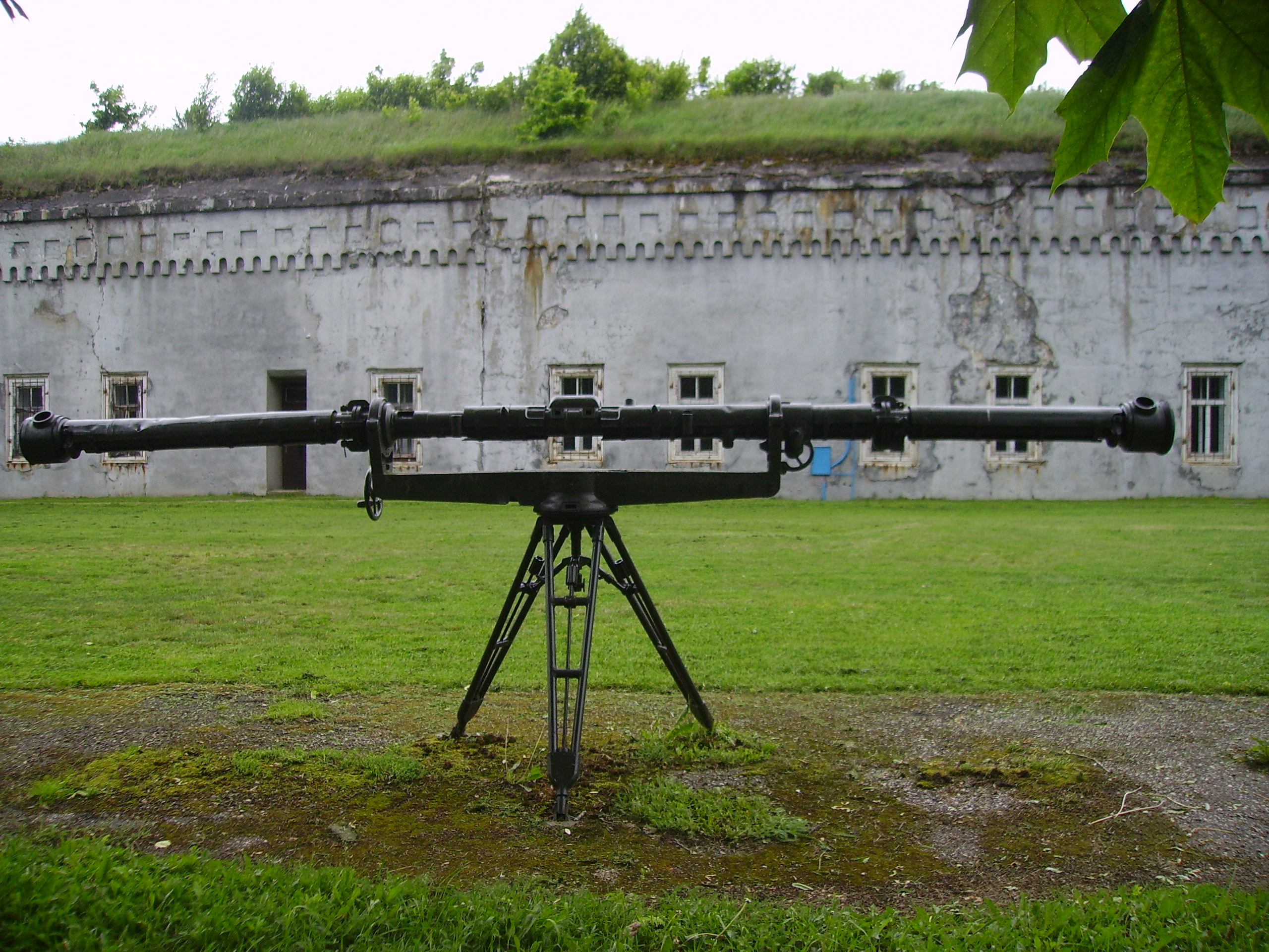 Osowiec Fortress Museum. Rangefinder